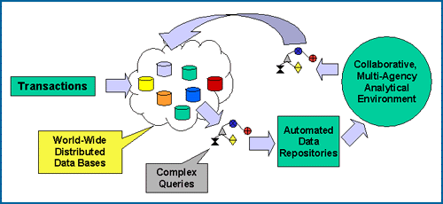 Graphic from the Information Awareness Office's website describing the goals of the Genysis project